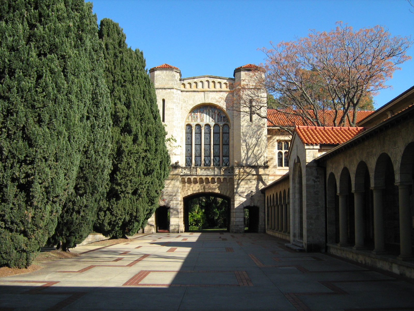 Archway at the back of Winthrop Hall, University of Western Australia.